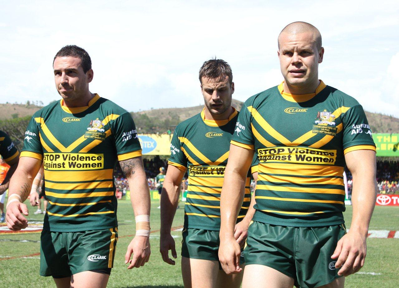 Australian players with Stop Violence Against Women message on jersey.